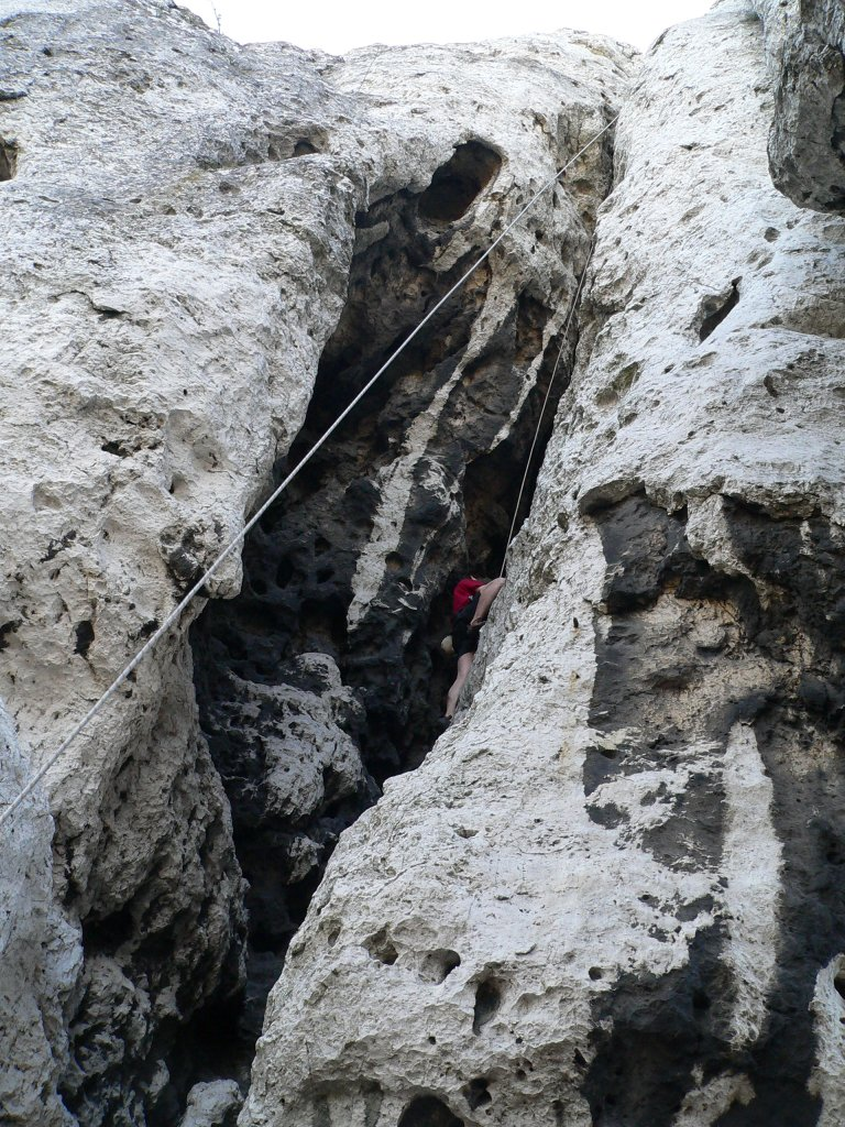 Top-roping in the Course-takers chimney in Góra Birów - Podzamcze